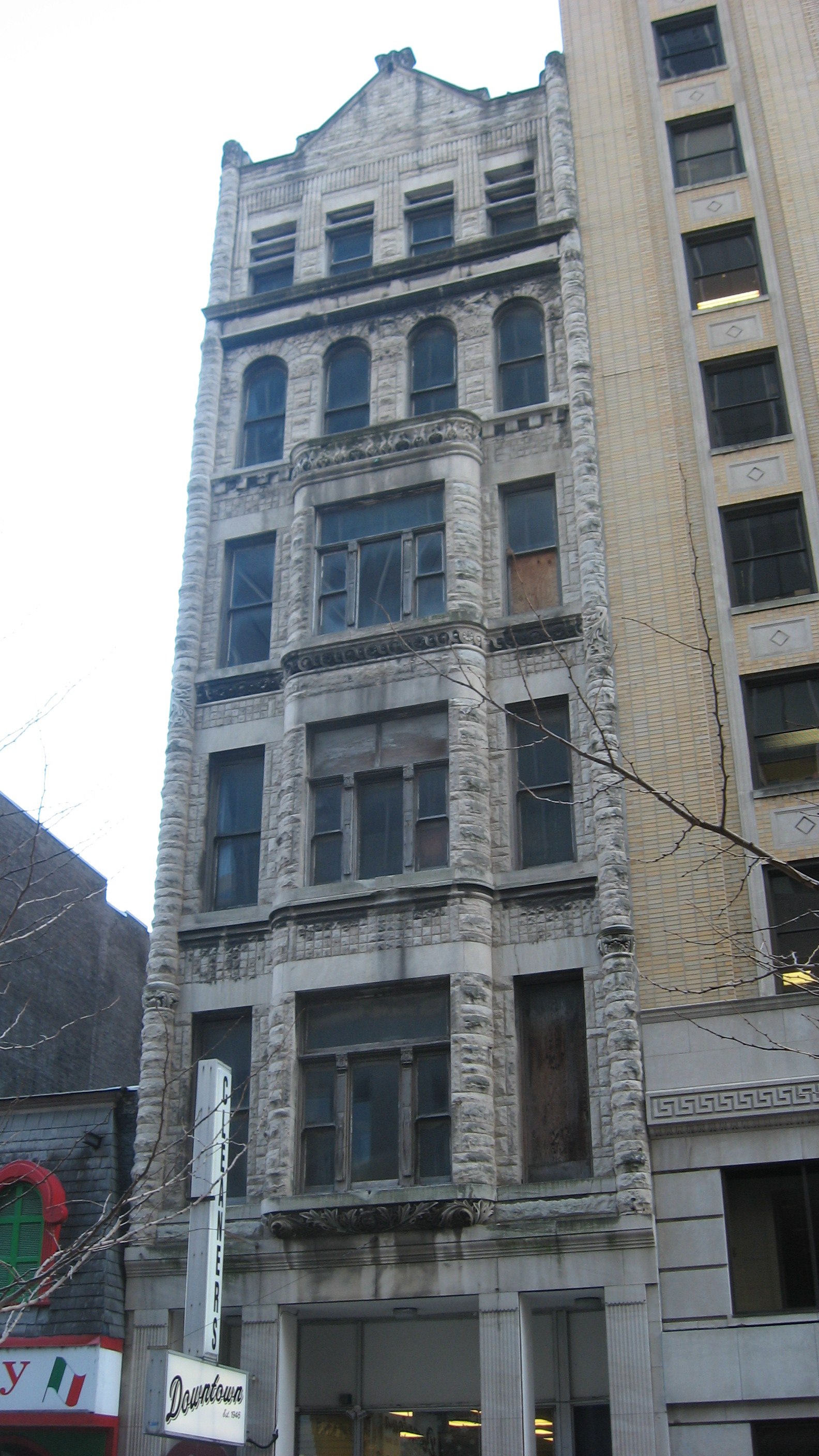 Front of the former Utopia Hotel, located at 206 Fourth Avenue North in Nashville, Tennessee, United States. Built in 1890, it is listed on the National Register of Historic Places.